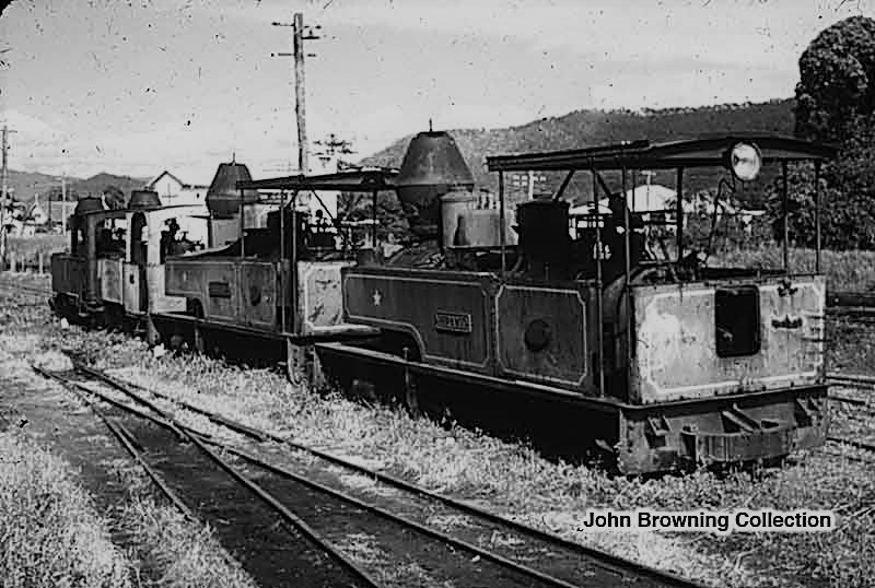 Mulgrave Sugar Mills 6 & 5 Hudswell Clarke Nos 1521-1522, 1924 0-6-0 T; 8 & 9 0-4-2 T Decauville 454 & 257-1896; 13.6.58 John Browning Collection